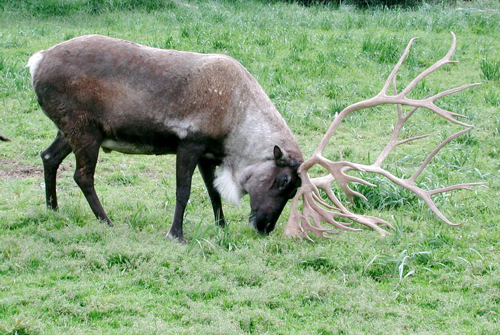 Caribou in Alaska using antlers [1]